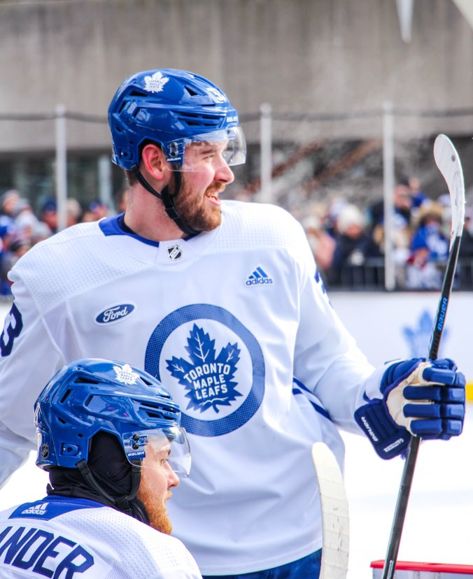 Frederik Gauthier at Maple Leafs practice.